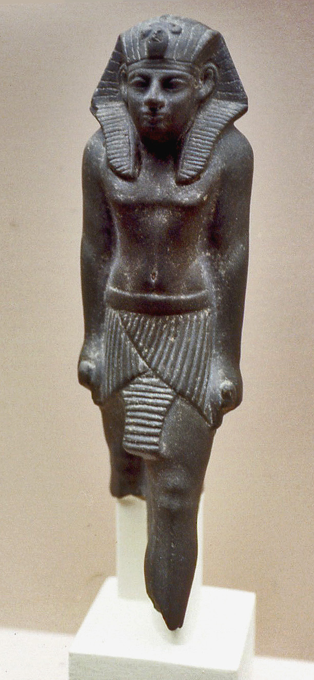 Statue of king Meriankhre Mentuhotep, known as Mentuhotep VI or Mentuhotep V depending on the scholar, late 16th dynasty, London, British Museum EA 65429.